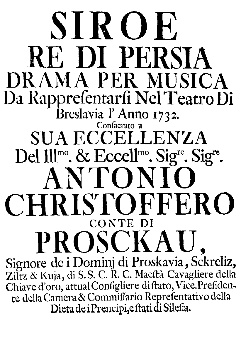 Antonio Bioni - Siroe re di Persia - italian titlepage of the libretto - Breslau 1732